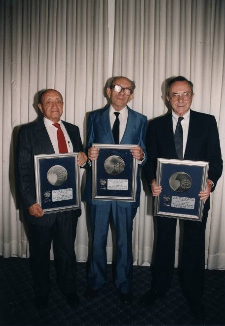 פרופ' דוד דנון (ראשון משמאל) מקבל את פרס ז'בוטינסקי ב-1998.